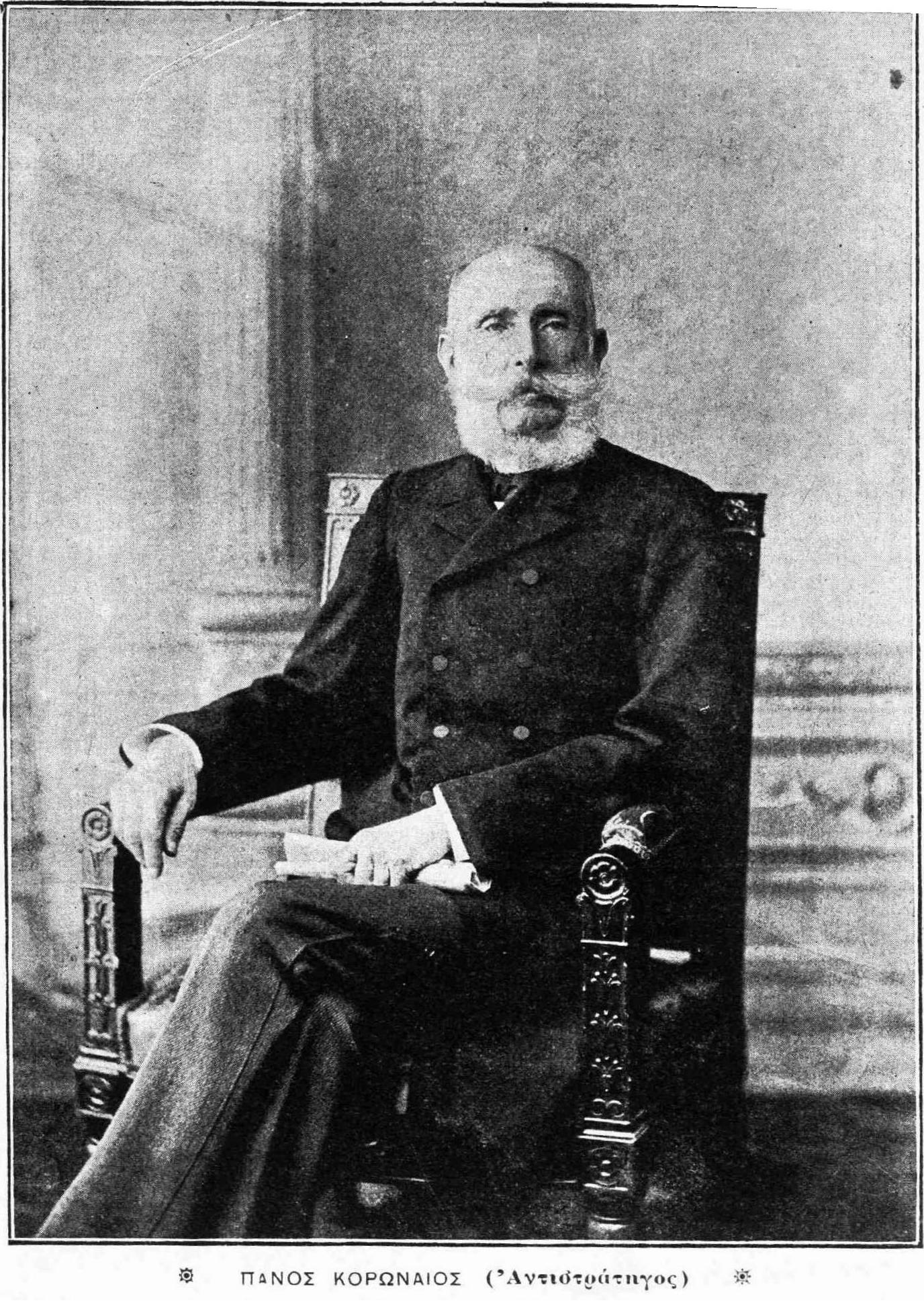 Panos Koronaios (Place of Birth: Constantinople 1809 - 1899 Date of Death: 1899)